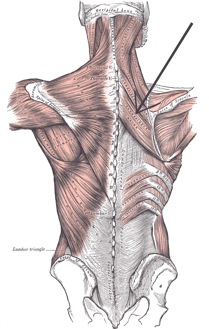 Muscles connecting the upper extremity to the vertebral column.